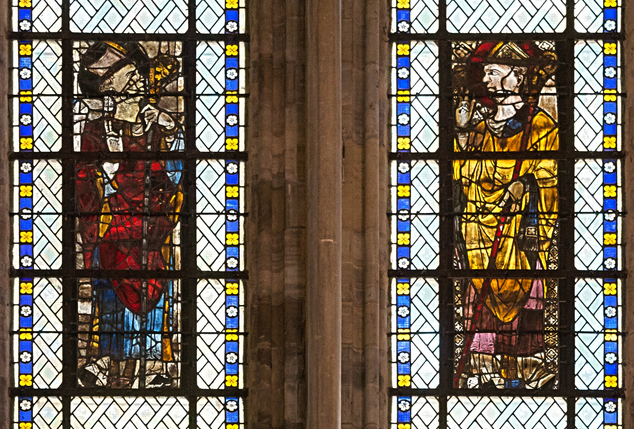 Fragments of a restored medieval stained glass window from c. 1260, depicting the Bayeux bishops Exuperius and Loup, now installed in the north window of Saint Vincent's chapel connected to the ambulatory of the choir. The fragments of the windows were preserved in the chapter room and restored in 1983–1984 by Michel Durand. See Martine Callias Bey and Véronique David, Les vitraux de Basse-Normandie, p. 73–75.